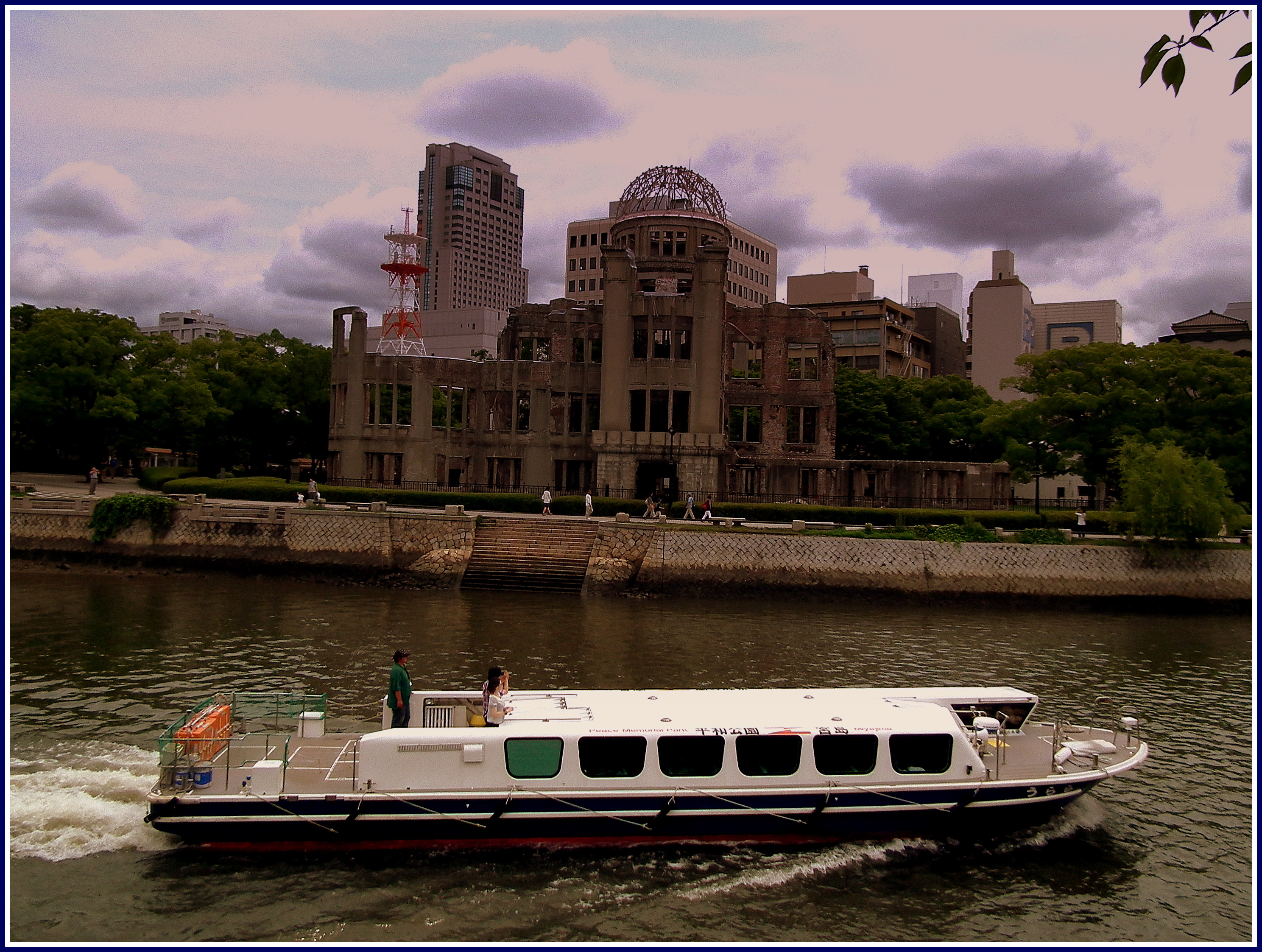 HIROSHIMA PEACE PARK JAPAN JUNE 2012